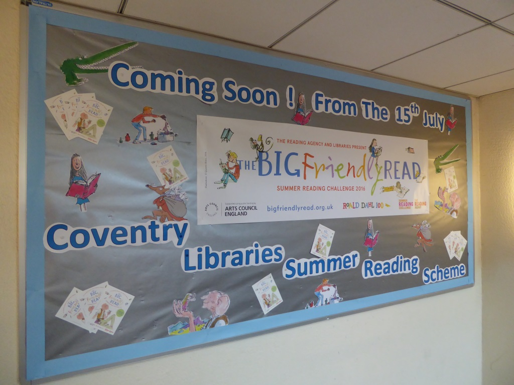 Preparations for Summer Reading Challenge 2016: the Big Friendly Read Visited by a member of the Libraries Taskforce team. Photo credit: Julia Chandler/Libraries Taskforce